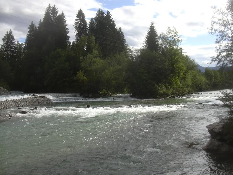 Origin of the river Iller in Bavaria, i.e. the confluence of Trettach (left), Stillach (middle), and Breitach (right)